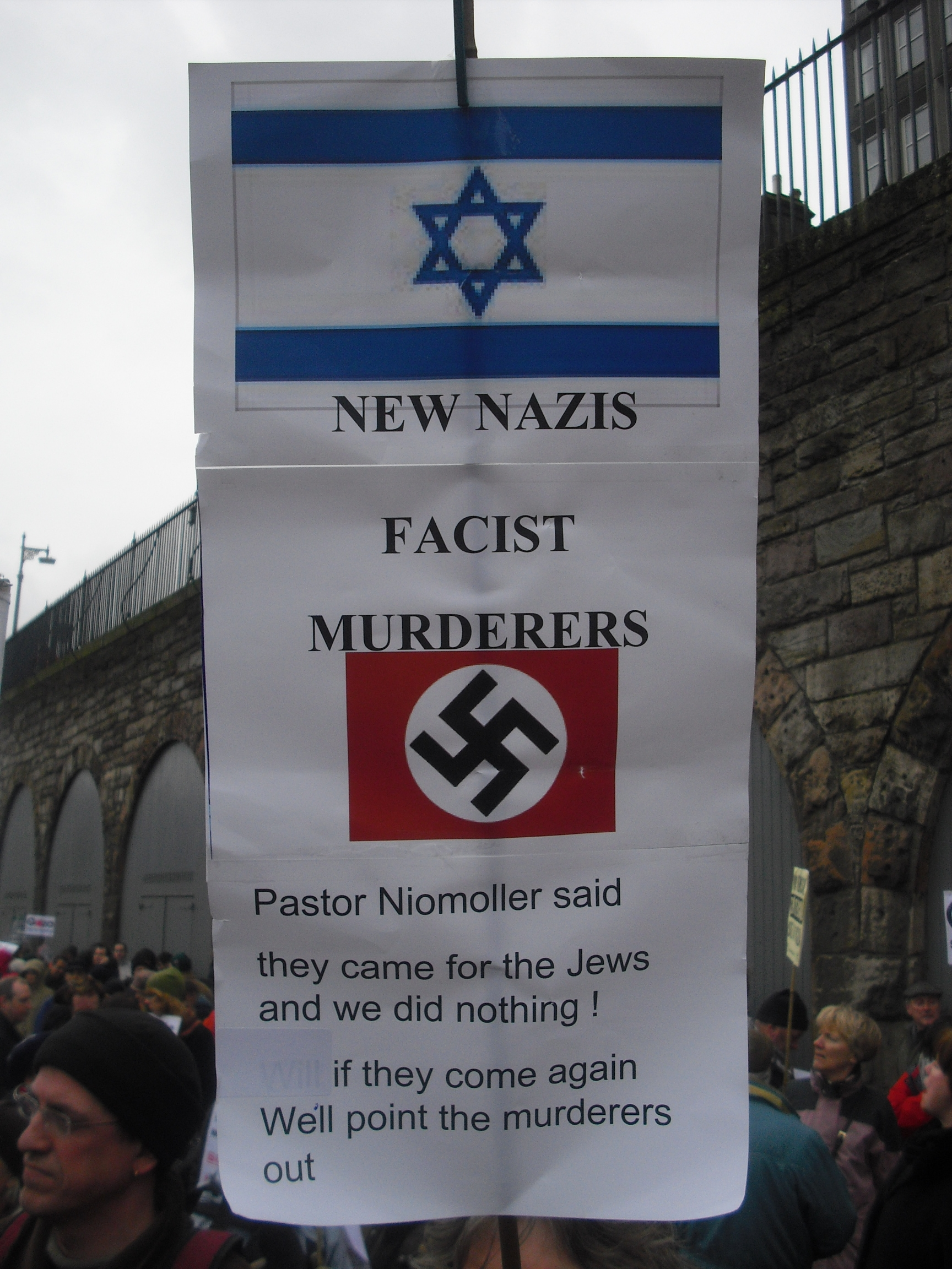 Protest in Edinburgh against Israeli war on Gaza Strip 10 1 2009. An example of the current view that there is parity between Israel's treatment of the Palestinians and the Nazi's treatment of the Jews.